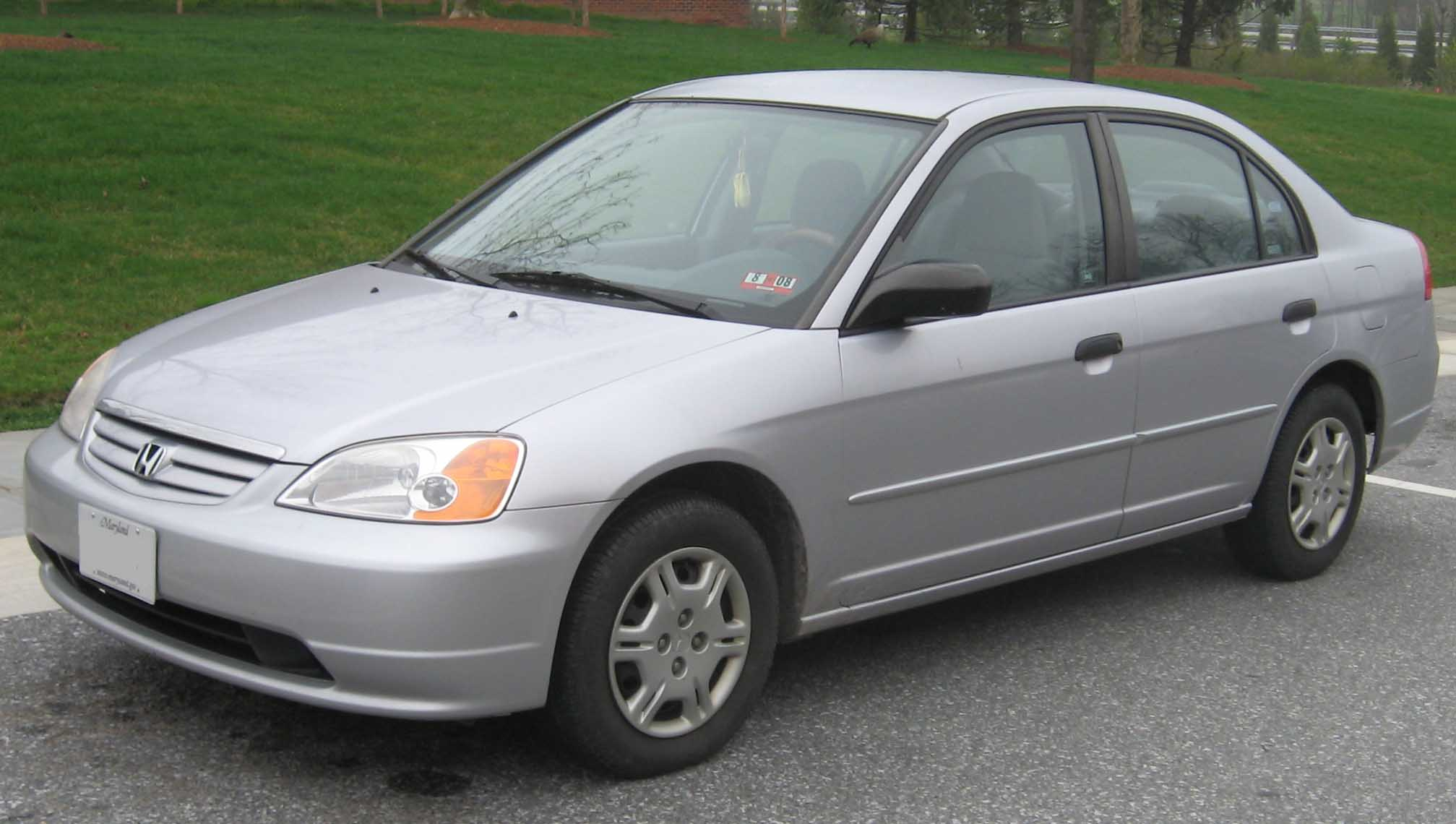 2001-2003 Honda Civic photographed in College Park, Maryland, USA.